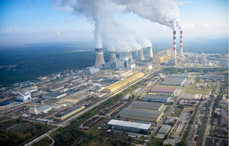 Energy Industry Bełchatów - bird's eye view